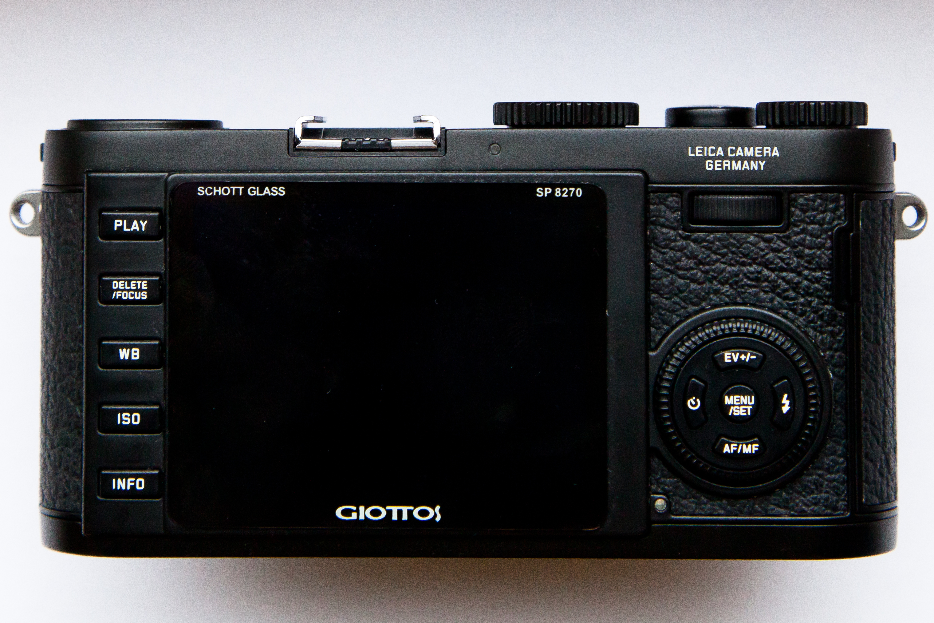 The back view of the Leica X1, with Giotto screen protector attached.